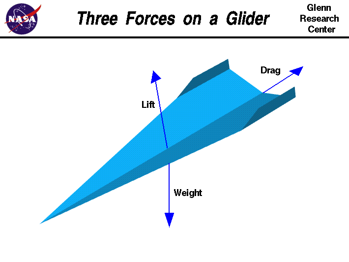 diagram of forces on a glider in flight